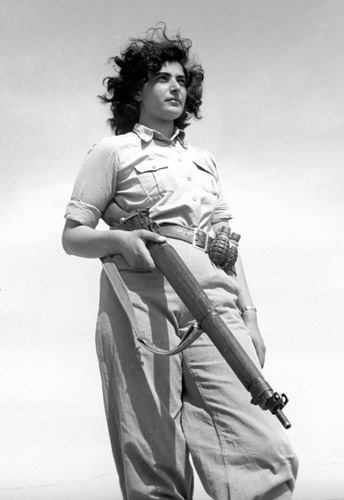 Israel Defense Forces